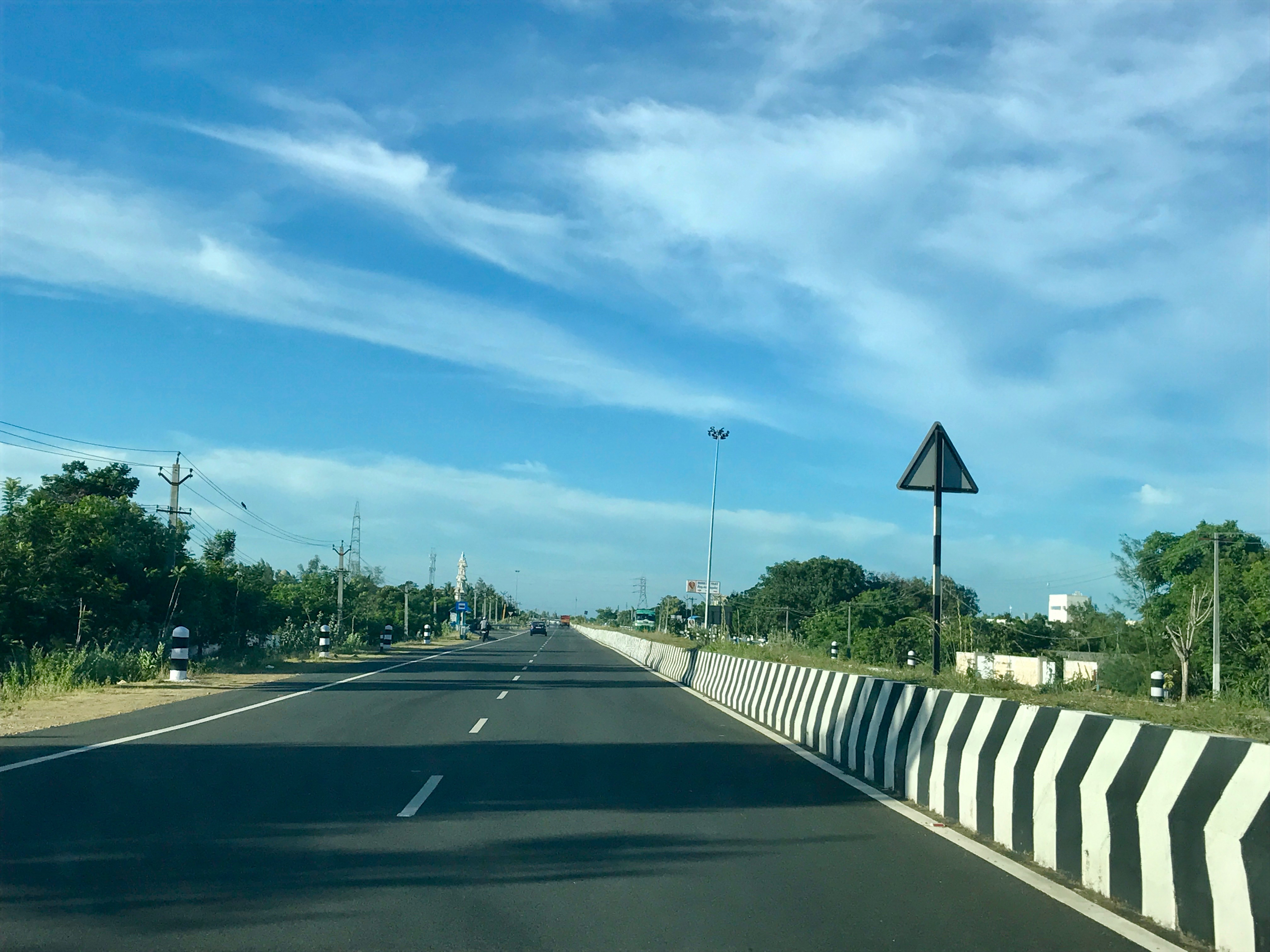 2015 completed highway, Chennai to Mahabalipuram road, India Almost entirely 4 lane divided Road network in India